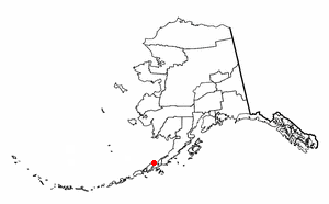 Adapted from Wikipedia's AK borough maps by Seth Ilys.